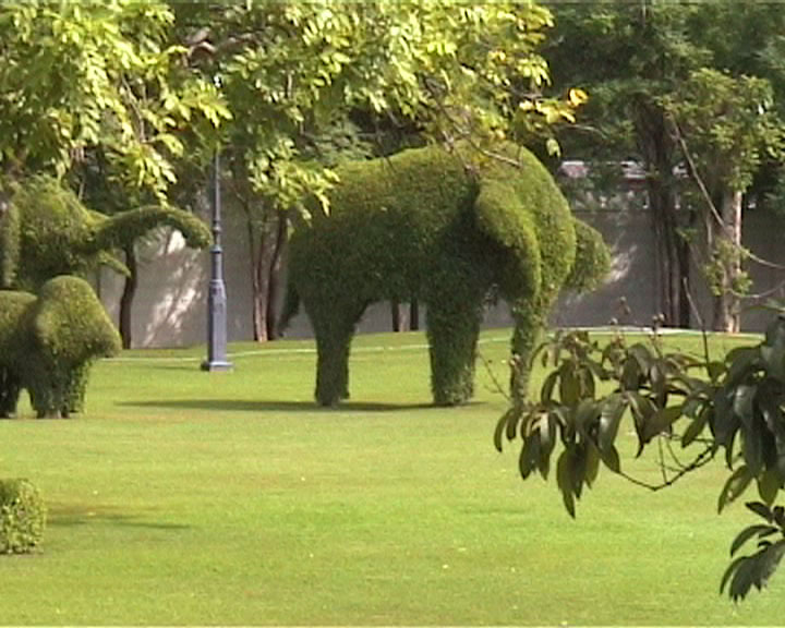 Topiary Elephant at the Bang Pa In Palace Thailand